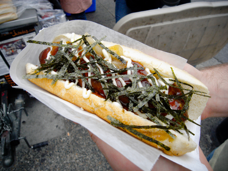 Japadog street cart at Burrard and Smithe in Vancouver.